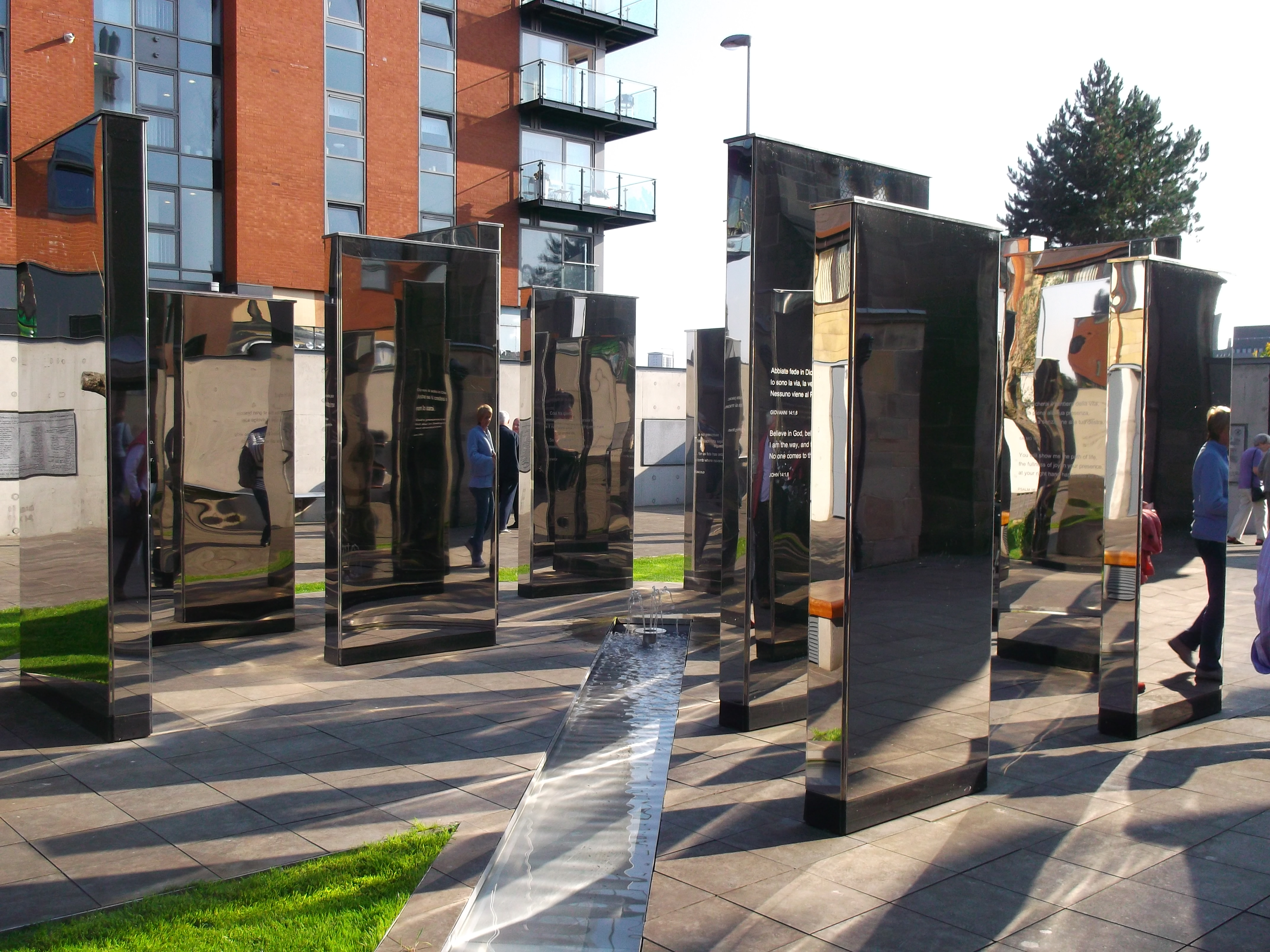 St Andrew's Roman Catholic Cathedral, Glasgow. The garden has a memorial to those lost in the sinking of the Arandora Star on 2 July 1940 [1]. Wikidata has entry Q2002811 with data related to this building.